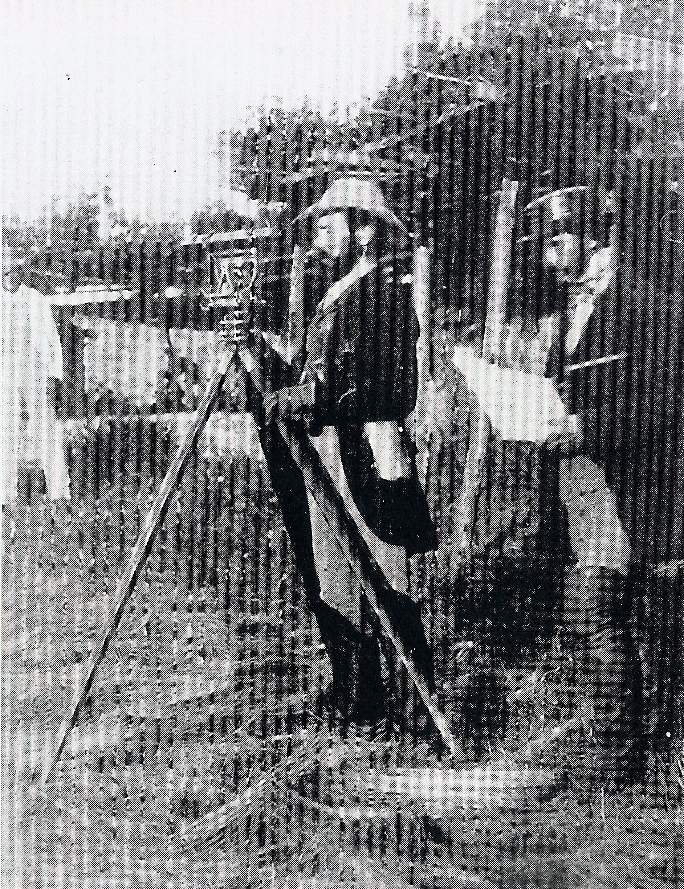 English engineers working in the construction of the Linha do Leste (East Railroad), in Portugal.